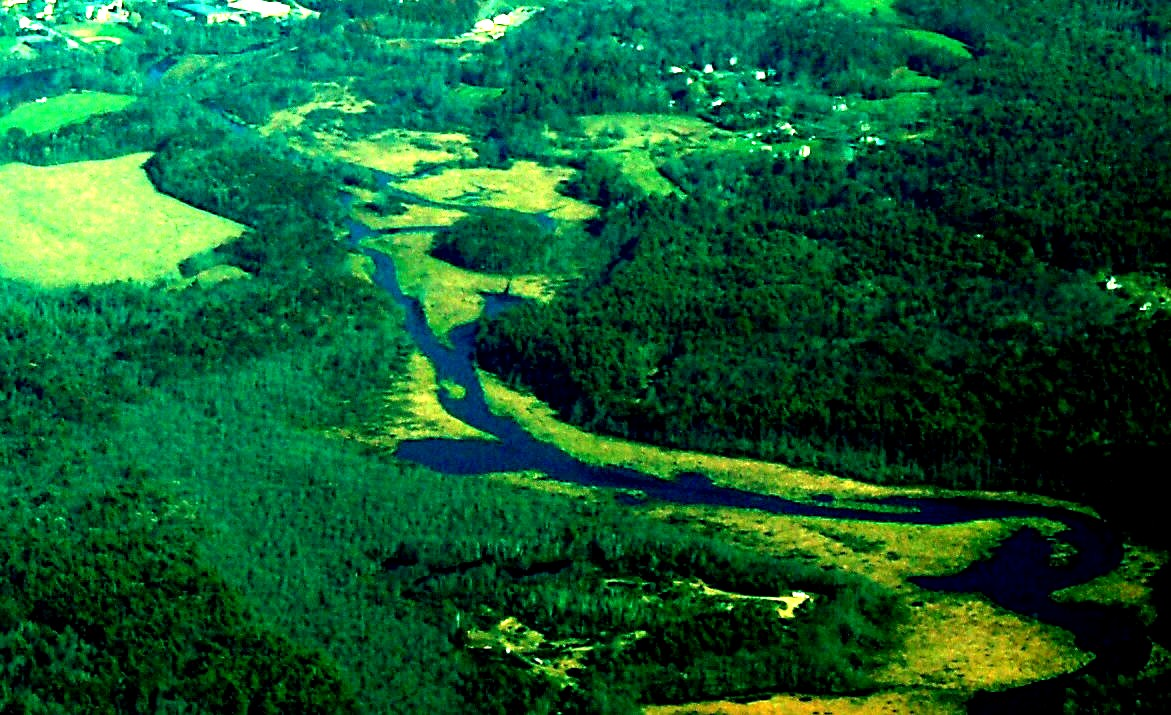 East Brookfield River from the air. Photo taken by the Author, Richard B. Johnson, from his Grumman Cheetah.